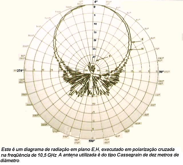 Radiation pattern of a ten meter diameter Cassegrain antenna at a frequency of 10.5 GHZ, in the E-field and H-field polarization directions.